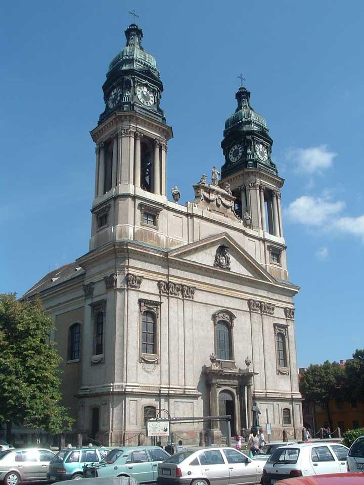 The Main Church in Pápa, Hungary